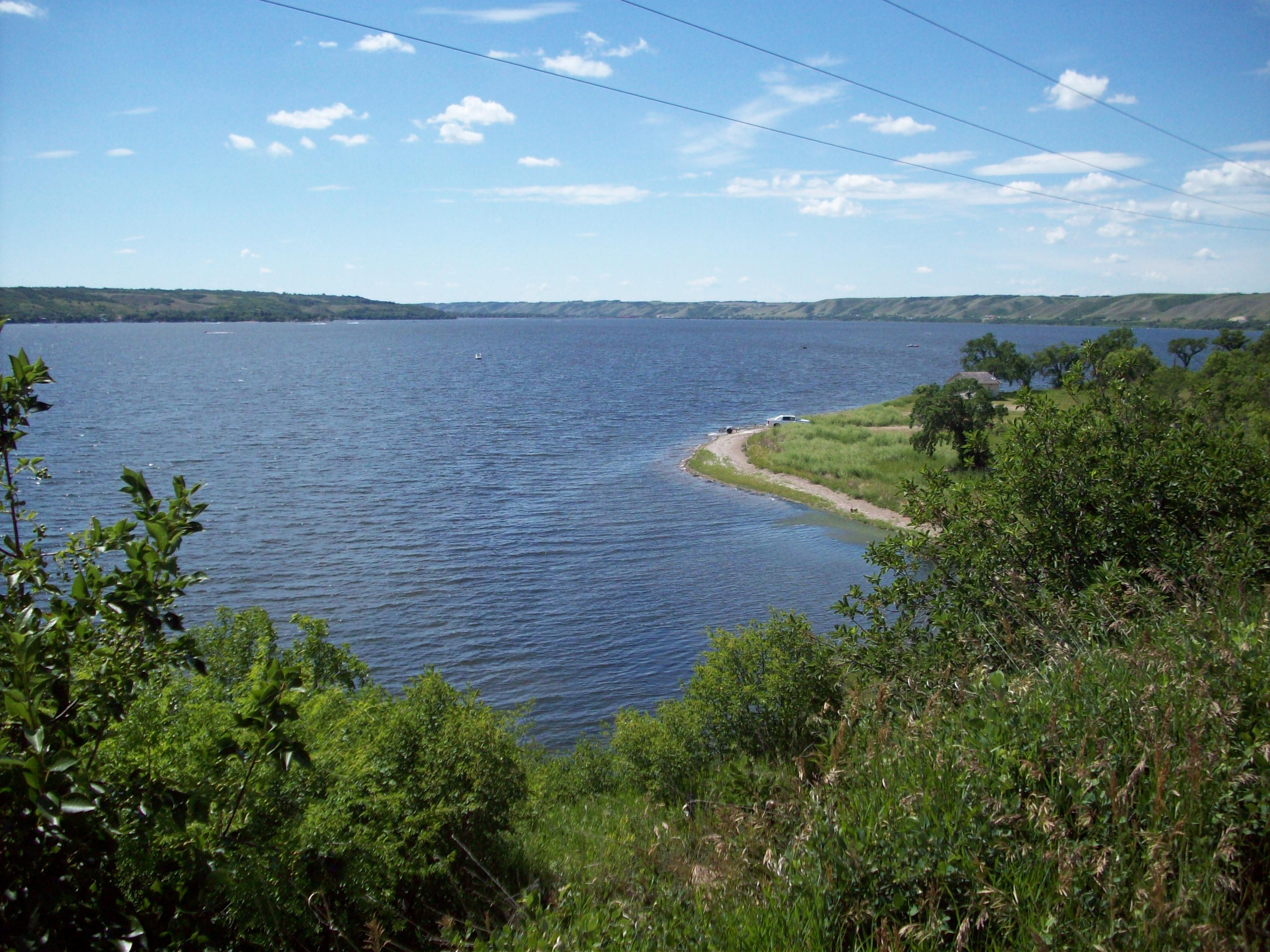 Echo Lake Summer 08